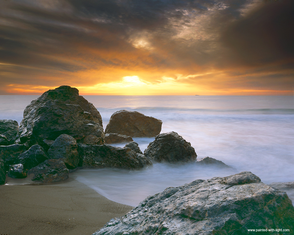 Westward Beach — at Point Dume State Beach, in Malibu, California. Credits Photographed by Doug Dolde at Westward Beach on Point Dume in Malibu, California. 2002. Arca Swiss 4x5 view camera, Fujichrome Provia 100F transparency film. More images from this location at